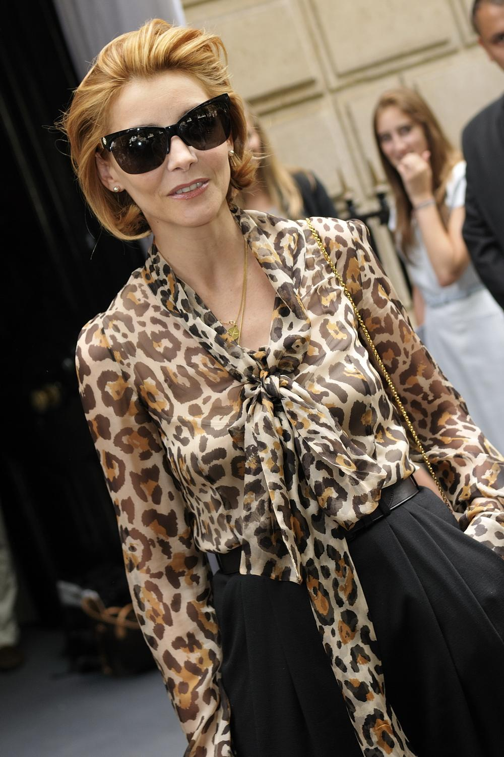 Actress Clotilde Courau.